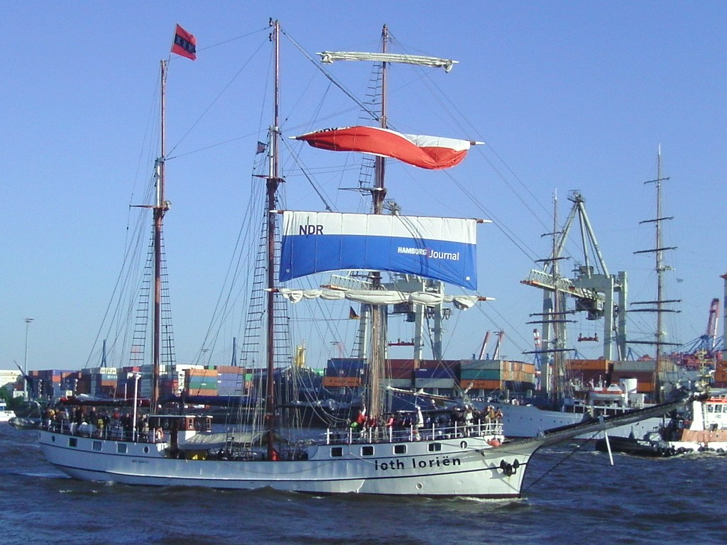 The sailing ship Loth Loriën in the port of Hamburg